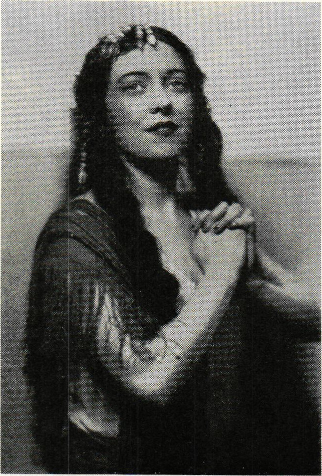 British/Swedish/American opera singer Stella Andreva.